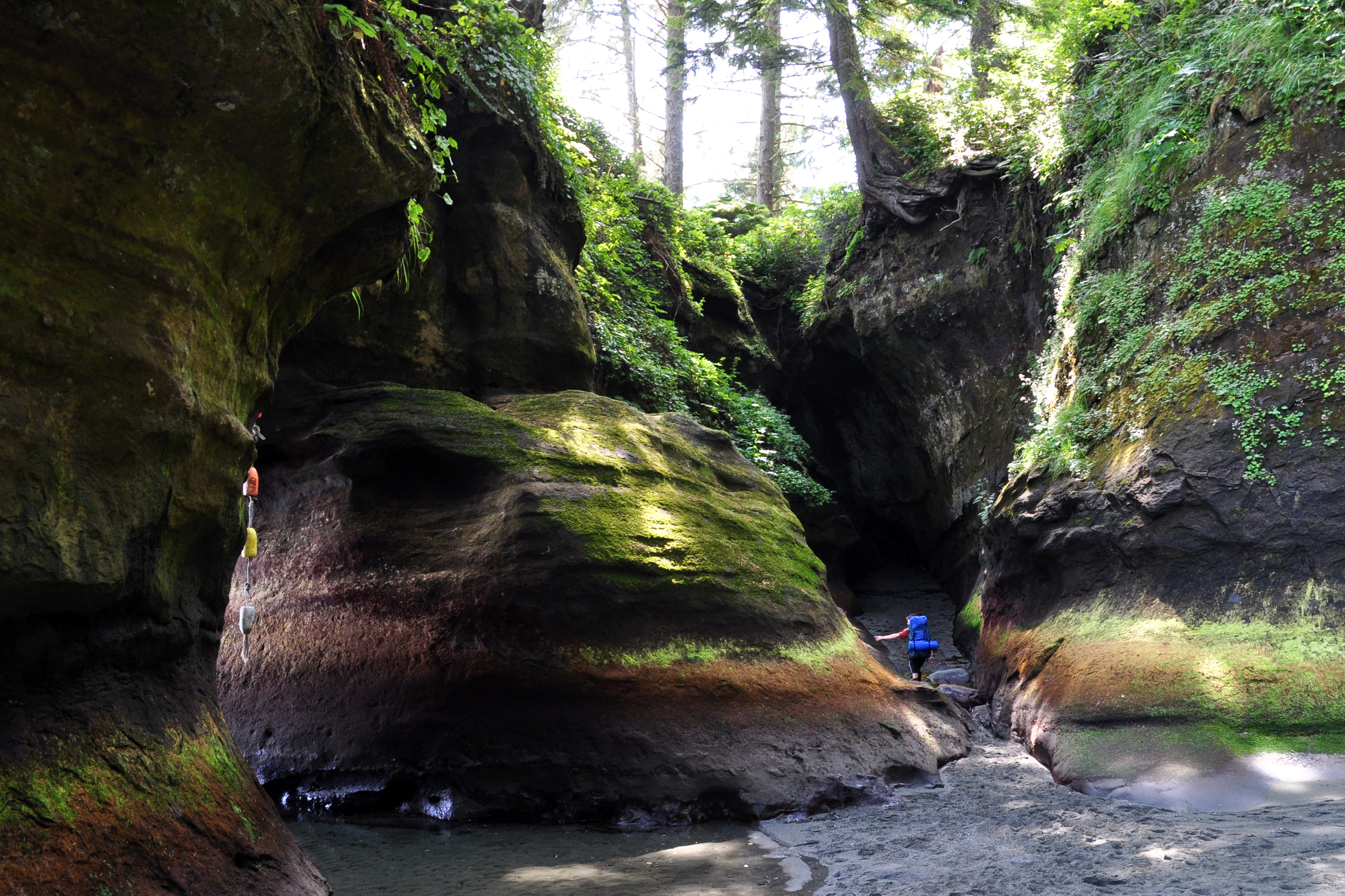 Hiking around Owen Point, on the West Coast Trail. Vancouver Island, British Columbia, Canada.